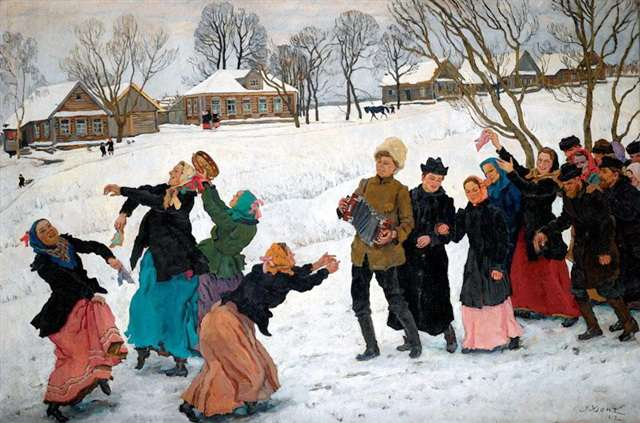 The Dance of the matchmakers. Ligachevo